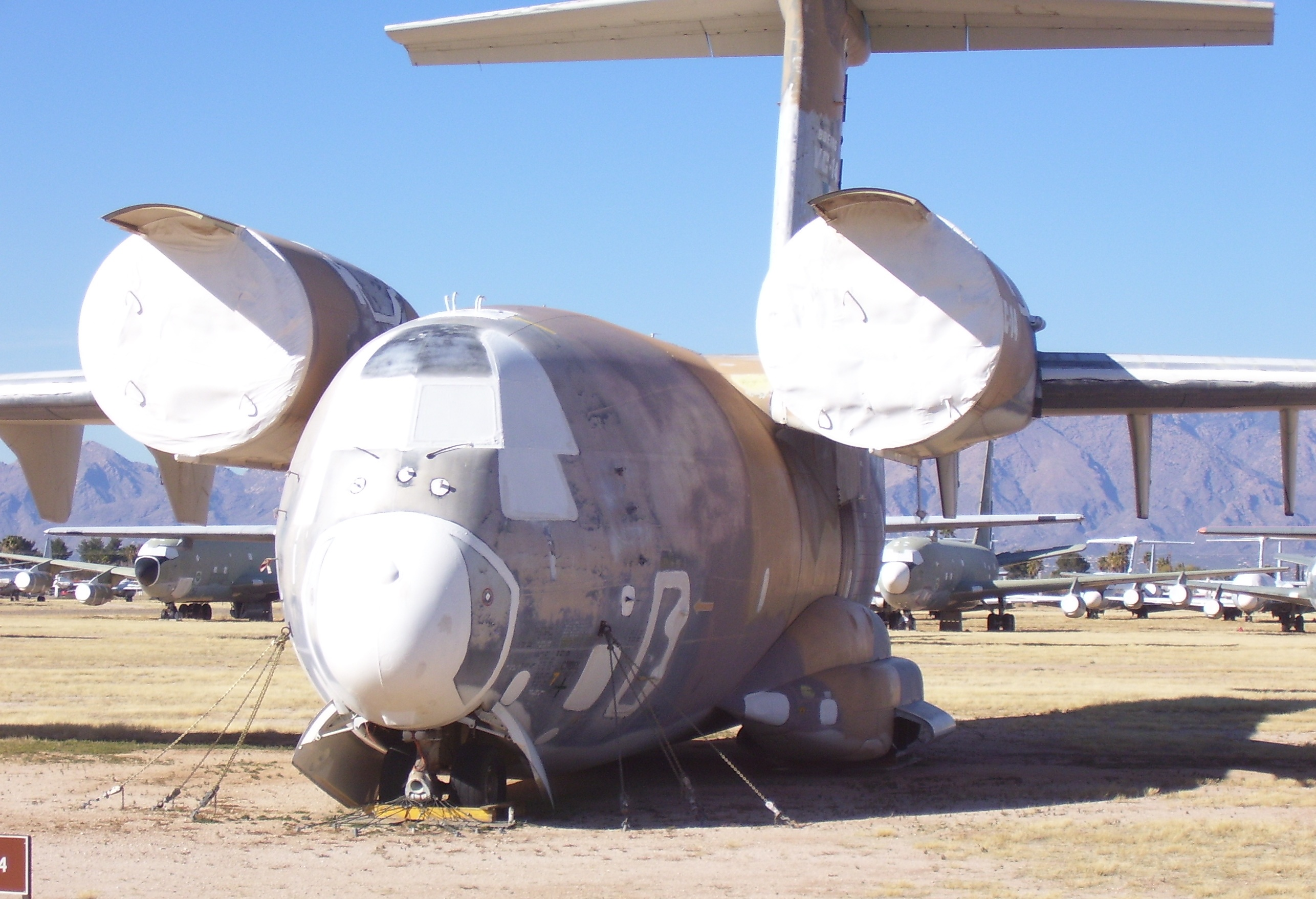 AMARG, Tucson - Davis-Monthan AFB (DMA / KDMA) USA - Arizona, February 17 2007.